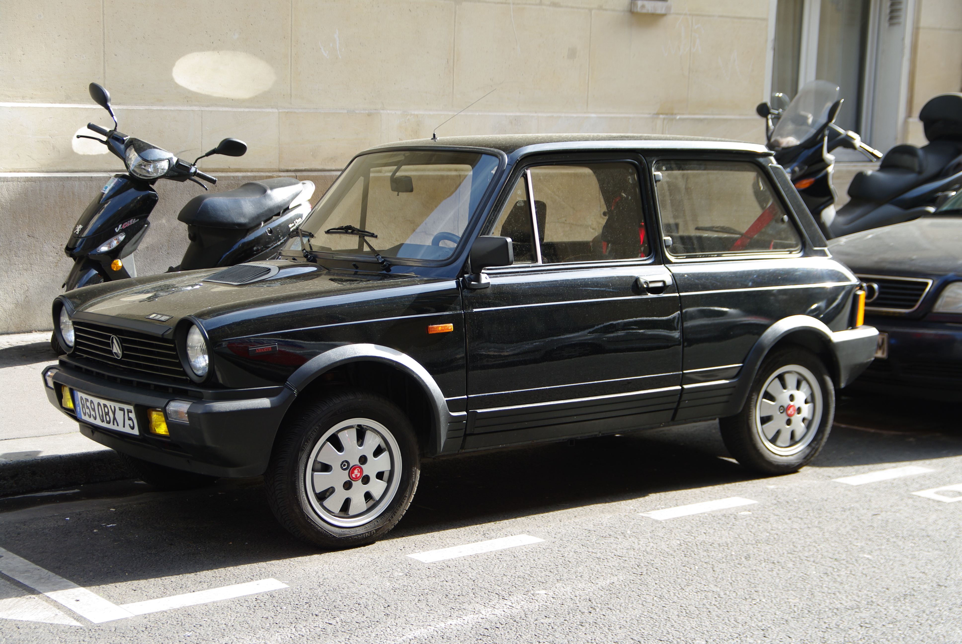 Autobianchi A112 Abarth front quarter view. Autobianchi A112 Abarth 7ª serie del 1984